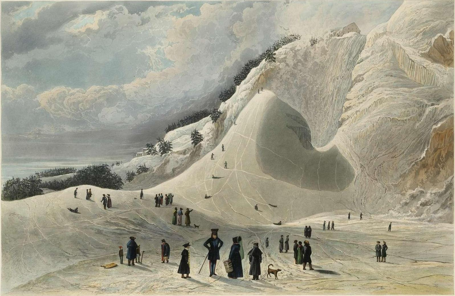 The Cone of Montmorency, as it appeared in 1829